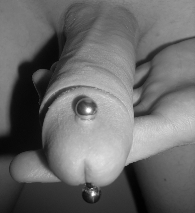 Apadravya piercing, Pierced by Jesika at Saint Sabrina's in Minneapolis Minnesota